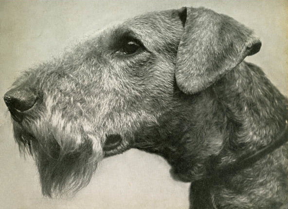 Profile photo of terrier by Ylla (Camilla Koffler), ca. 1938.